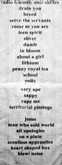 Last setlist of a Nirvana show.